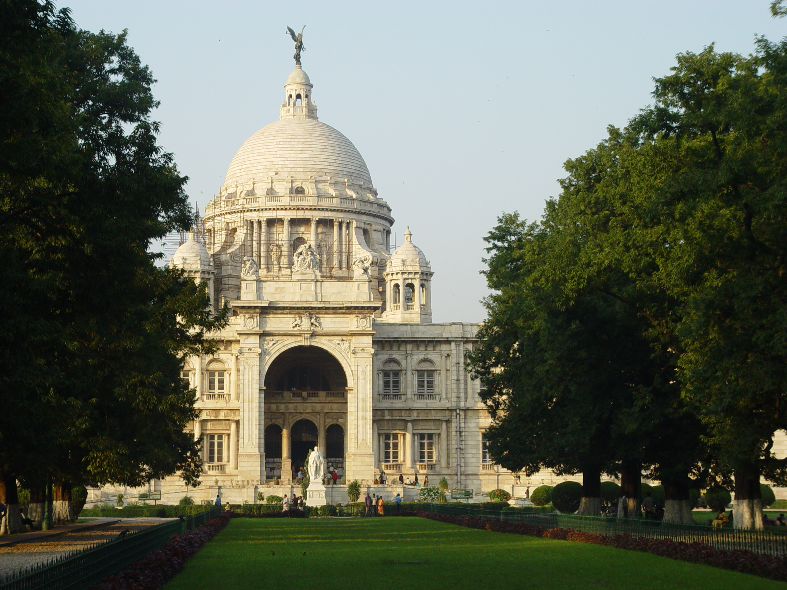 The Victoria Memorial Hall,Kolkata is a memorial of Queen Victoria of the United Kingdom who also carried the title of Empress of India. It currently serves as a museum under Ministry of Culture, Government of India, and a tourist attraction.